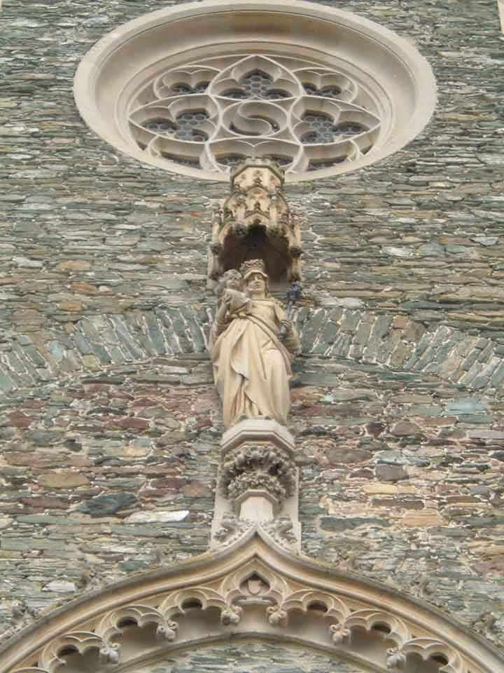 The gothic church of Mariasdorf (14th c.), Burgenland, Austria